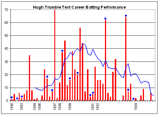 Test batting chart of Hugh Trumble. Red columns are the runs in the innings. Blue dots indicate not outs. Blue line is average in the last ten innings. Thanks to Raven4x4x for providing the template.